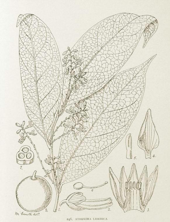 Atroxima liberica. 1. Flowering branch (nat. size). ; 2. Flower (en. Pistil (enlarged). ; 3. Corolla and staminal tube laid open (enlarged). ; 4. Interior petal (enlarged). ; 5. Anther (enlarged). ; 6. Pistil (enlarged). ; 7. Section of ovary (enlarged). ; 8. Fruit of A. macrostachya (nat. size)